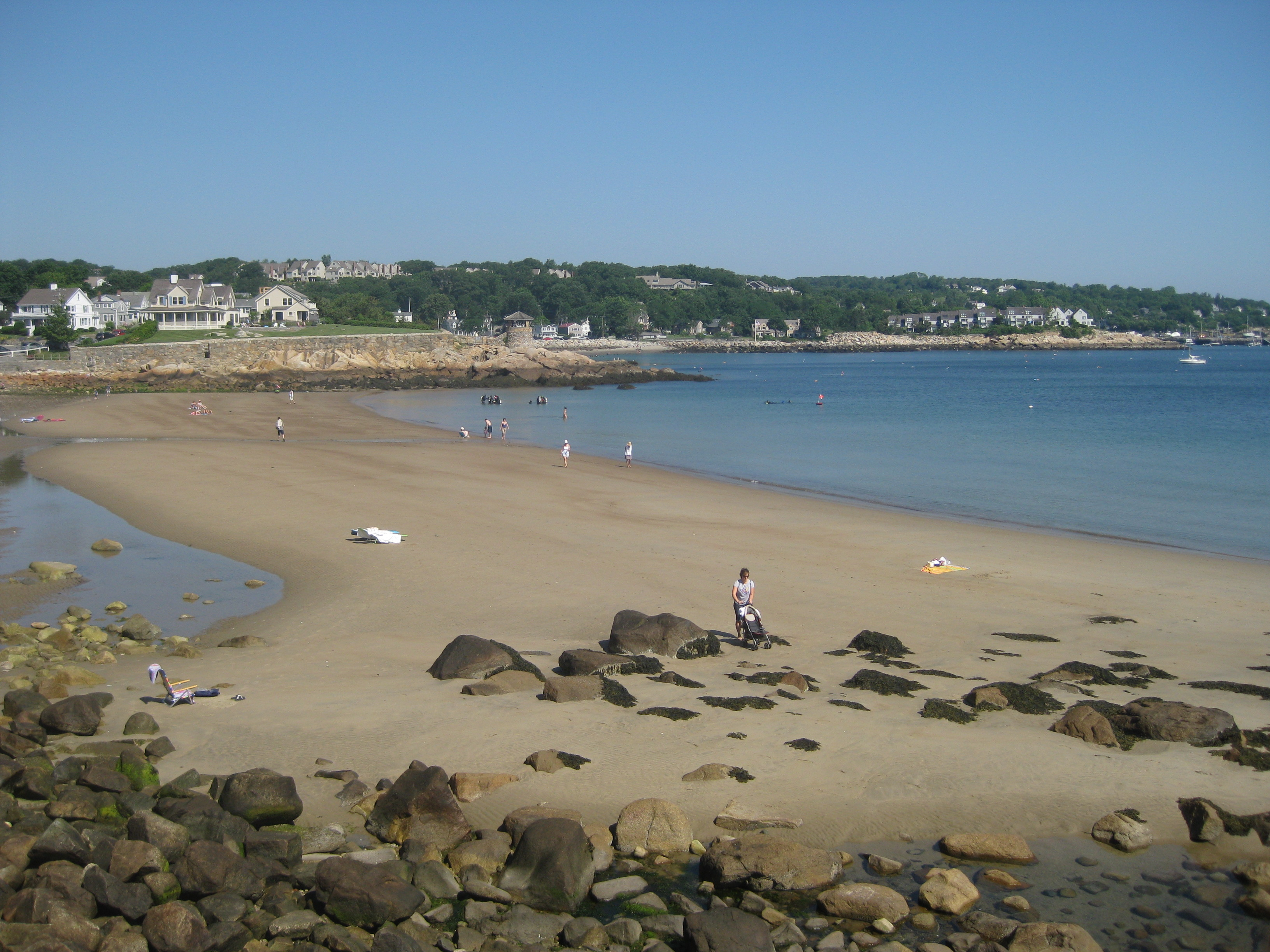 A picture of a beach in Rockport, Massachusetts.